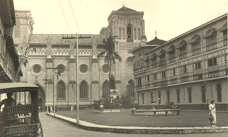 Santo Tomas and Colegio De Santa Rosa